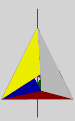 Császár-Polyhedron (radial symmetry), axis in red